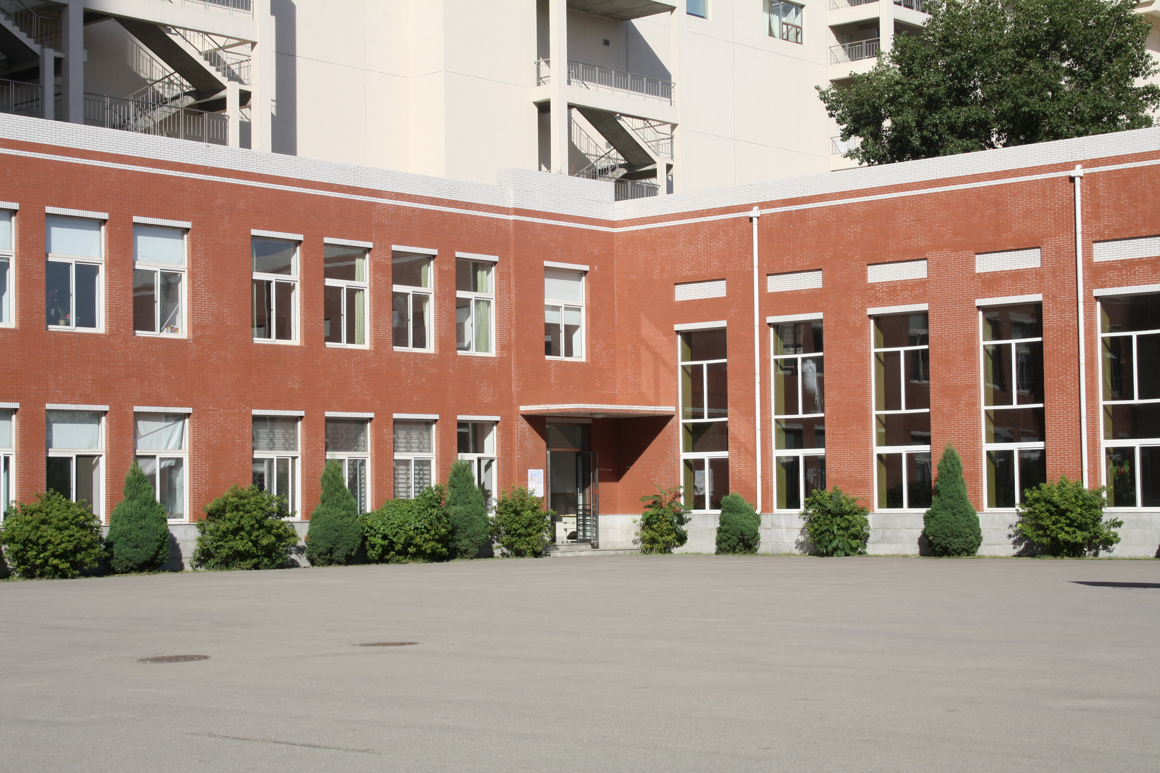 Taked in 2009.